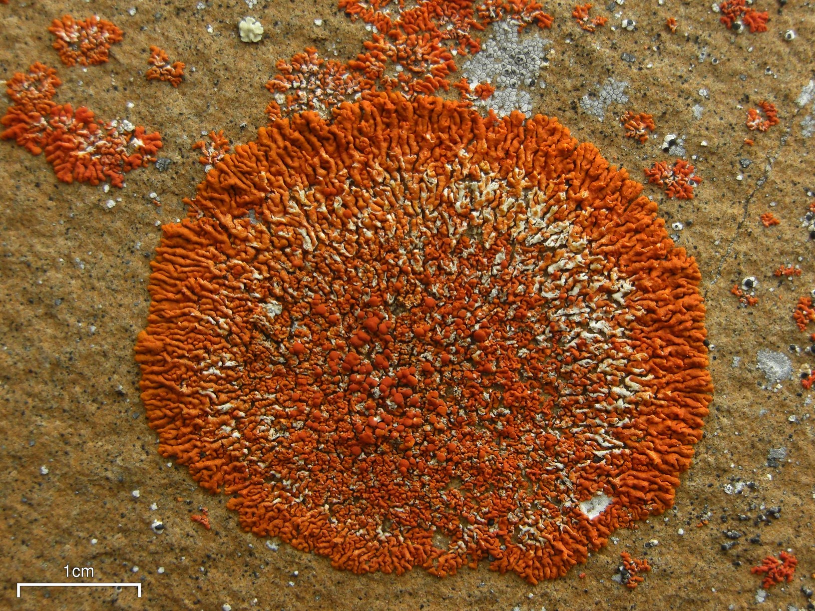 The lichen Xanthoria elegans (Link) Th. Fr. Specimen photographed in Mount Stearn, Wellmore Wilderness, Alberta, Canada. Notes: "on exposed sandstone in alpine".